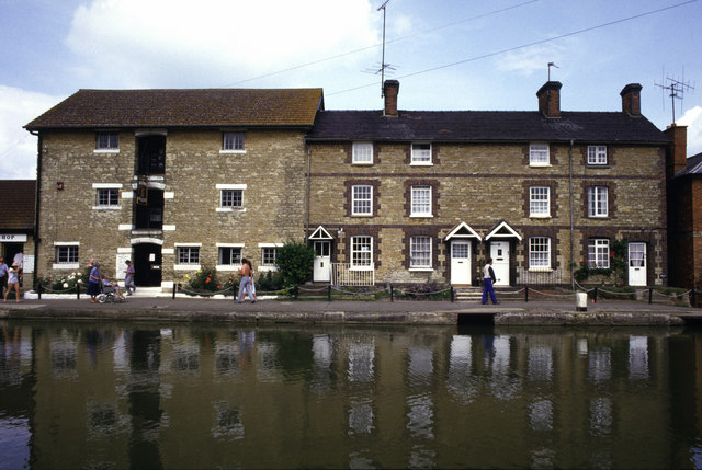 Stoke Bruerne Canal Museum, near to Stoke Bruerne, Northamptonshire, Great Britain. A long established museum in the building on the left. Now left trailing by museums at Ellesmere Port and Gloucester